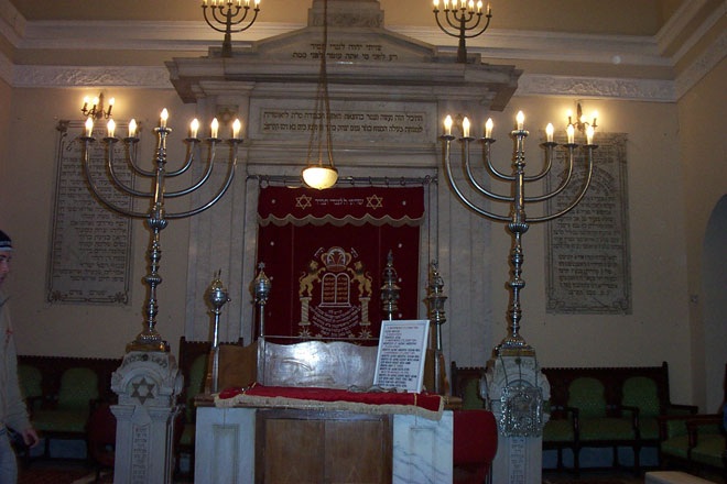 Saloniki_Synagogue. Credit: Courtesy of Arie Darzi to memorialize the Jewish community in Greece.